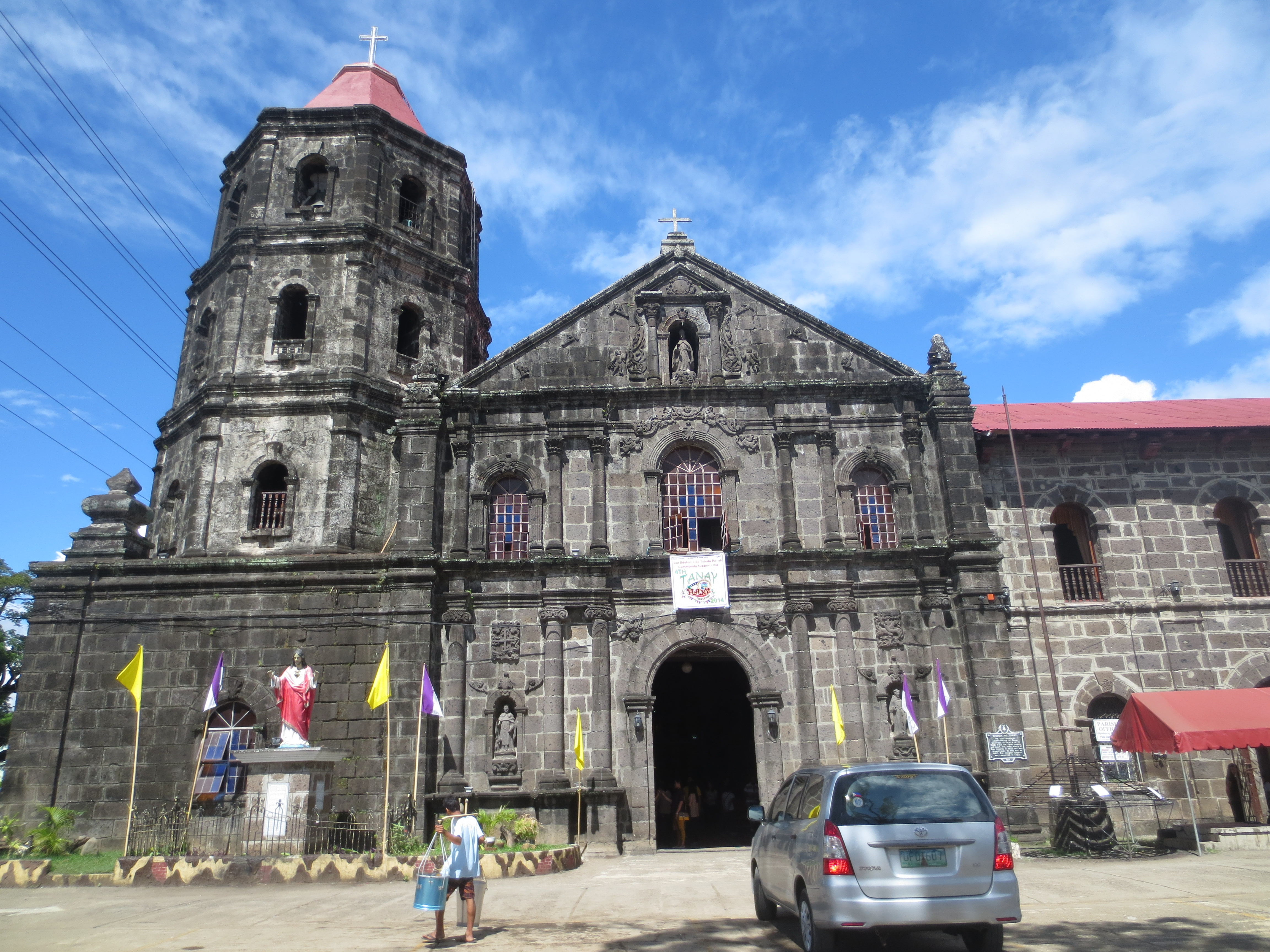 Facade of the church